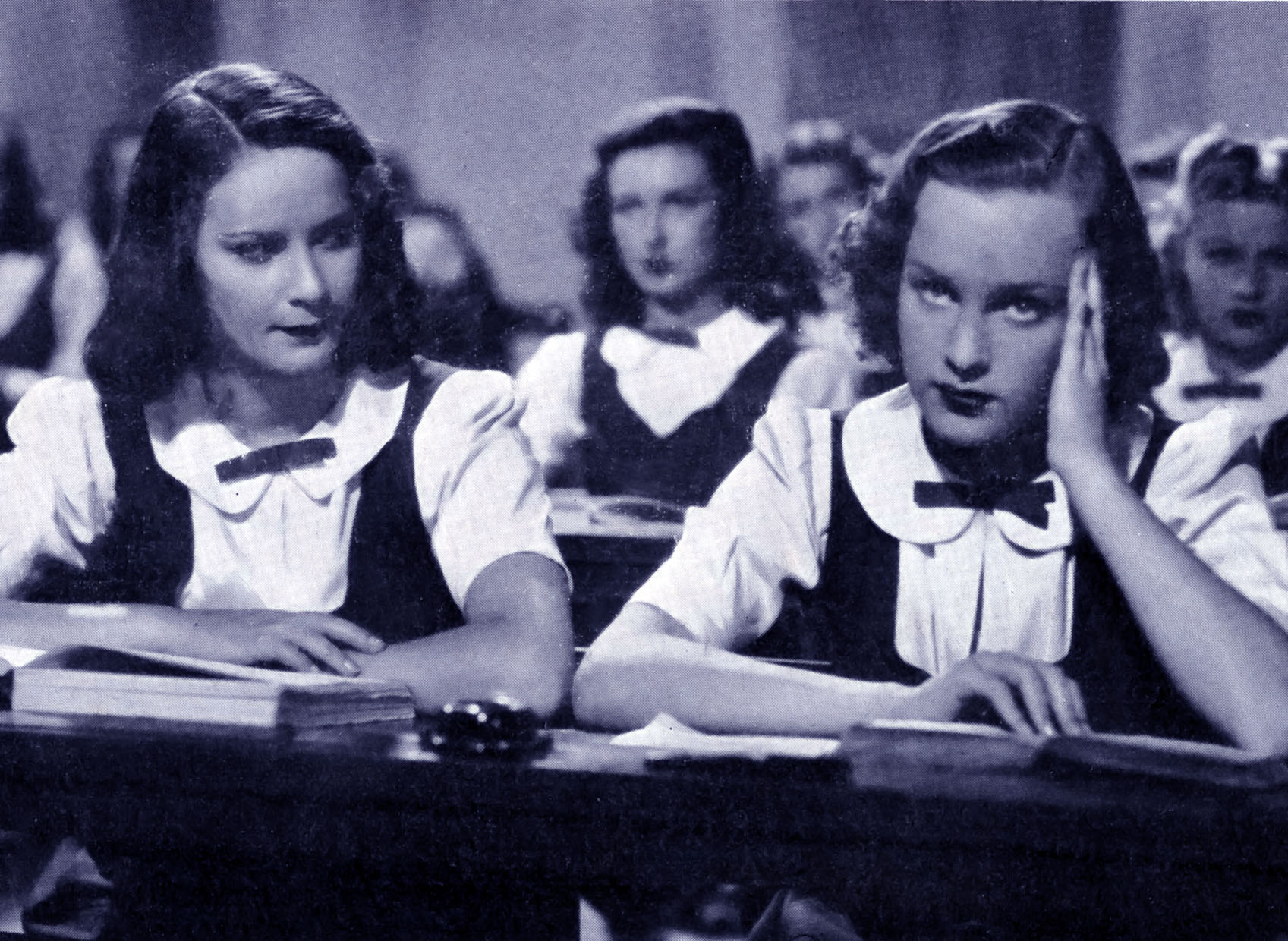 screenshot from the film Ore 9 lezione di chimica (1941)